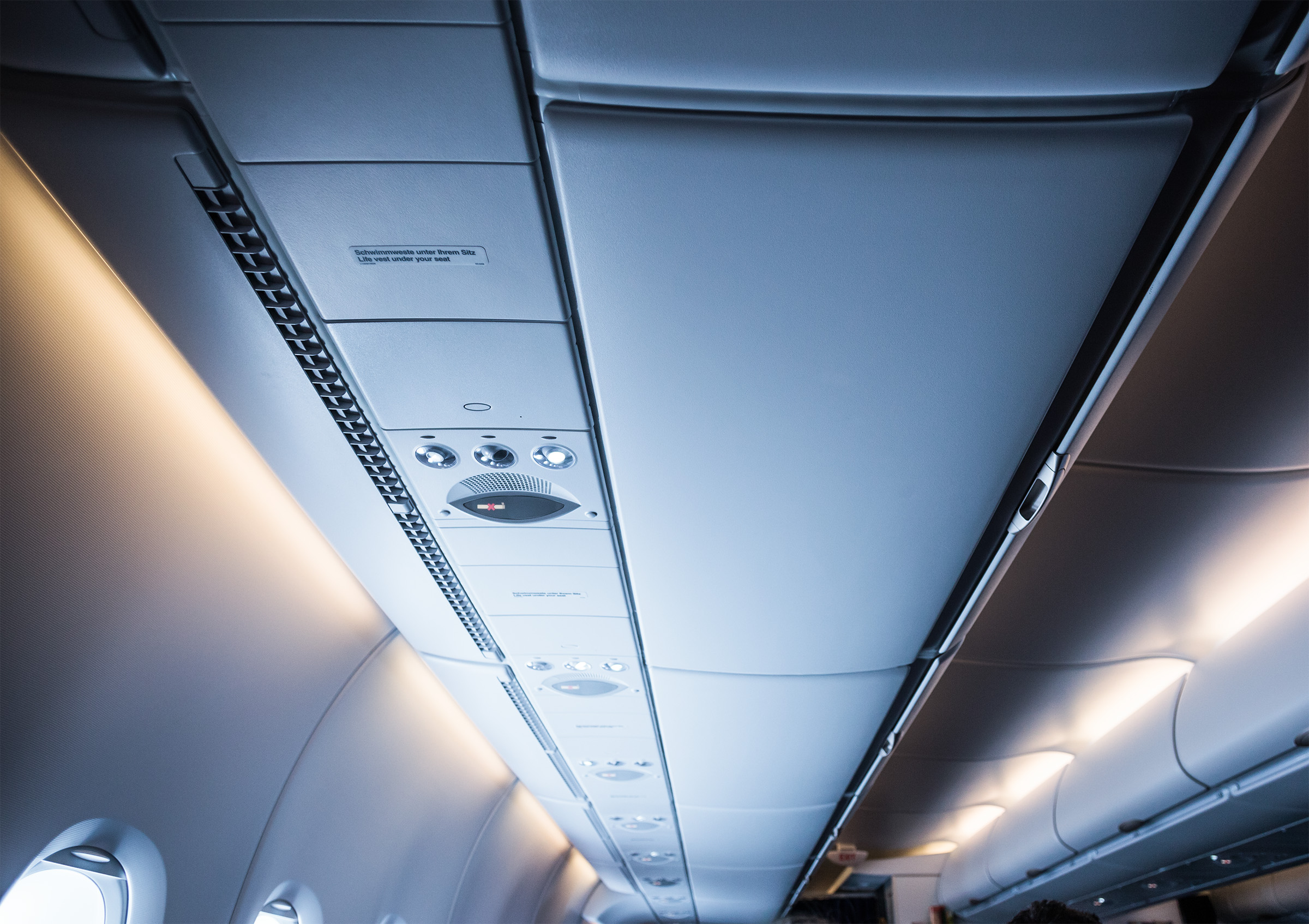 Frankfurt to SFO